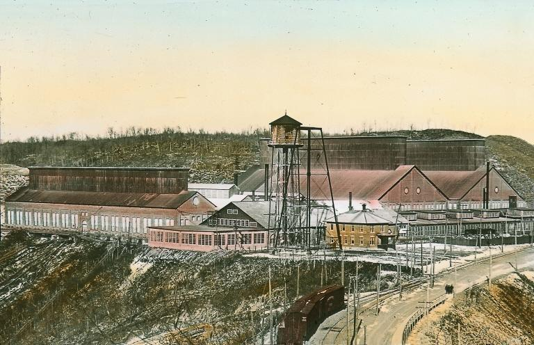 Photograph, glass lantern slide, Northern Aluminum Company, Shawinigan Falls, QC, about 1930, Anonymous, Silver salts and transparent ink on glass - Gelatin dry plate process - 8 x 10 cm